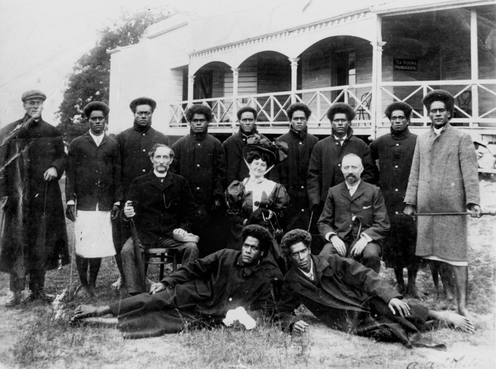 Fijian cricketers posing with the Whites Hill tearooms in the background. Archibald Meston photographed with a group of Fijian Cricketers at Whites Hill.